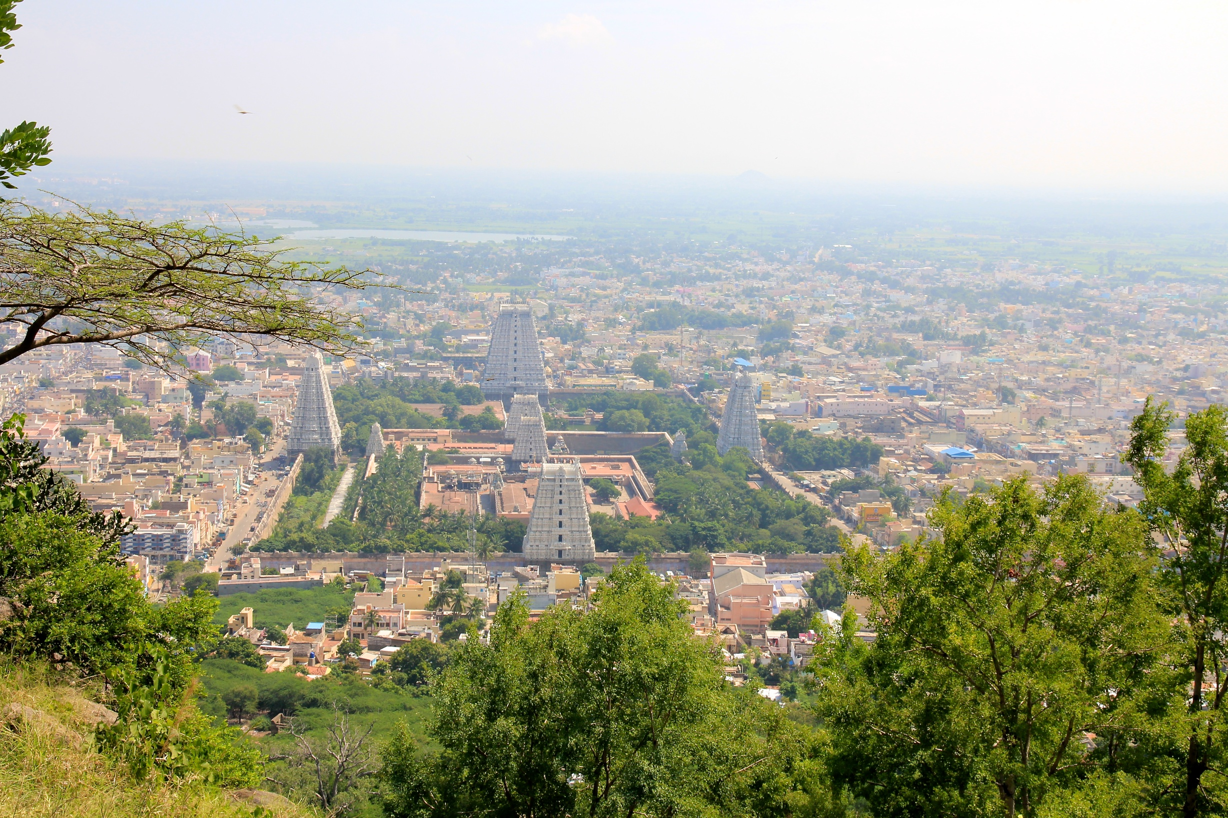 Annamalaiyar (or Arunachaleshvara) Temple from Virupaksha Cave, Thiruvannamalai, India.